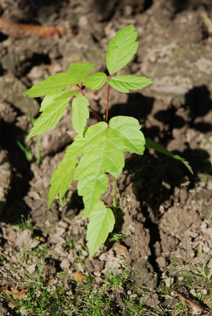 A self sown seedling of Acer negundo growing at the National Botanic Garden of Belgium